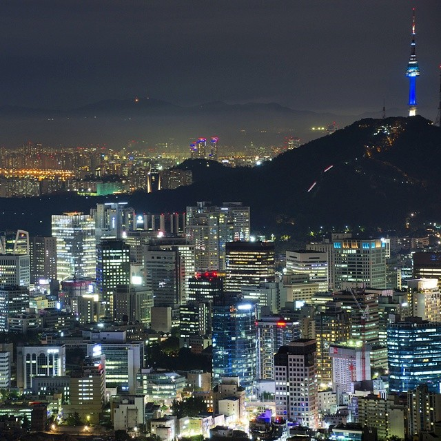 City Seoul